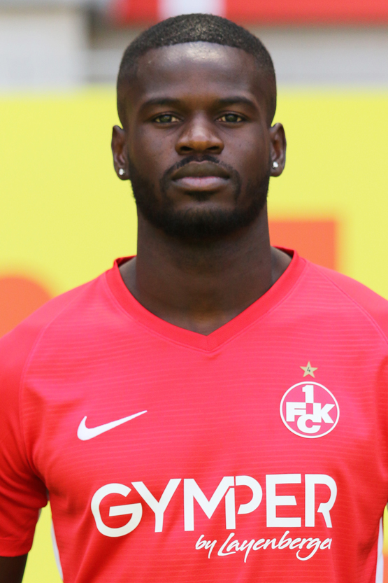 Jose-Junior Matuwila (Nr. 4)